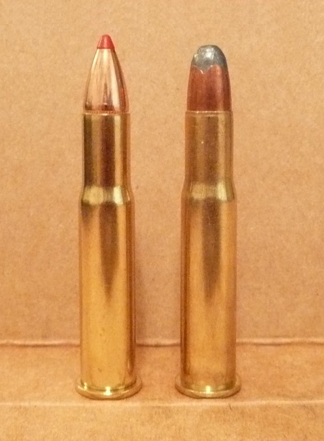 Yerpdog